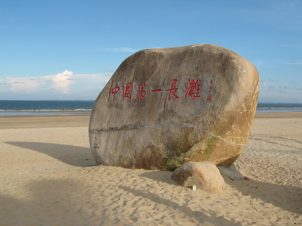 龙海天；崖长沙软，沙滩带长28公里，宽150米—300米之间，在世界居第二位。海沙租细适中，海底地势坡度极小，海水一清见底，无污染，8米深处仍可见物。一年四季80％时间向海岸吹东南风。风轻浪细七八层。